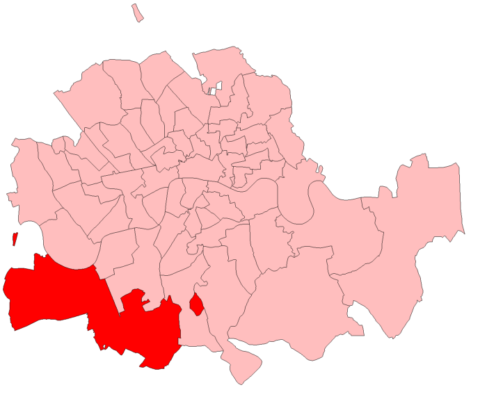 A map of Wandsworth constituency within the Metropolitan Board of Works area, as it existed from 1885 to 1918.